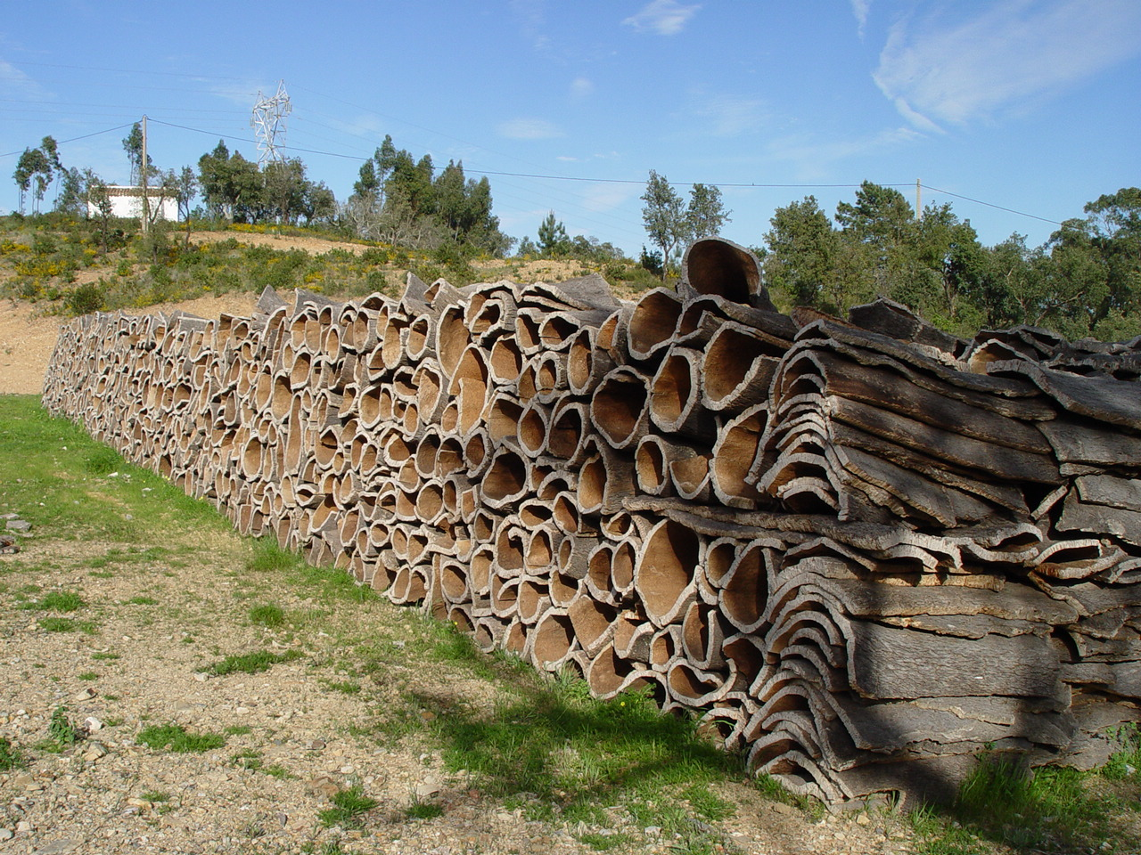 A stack of harvested cork, Algarve, Portugal.